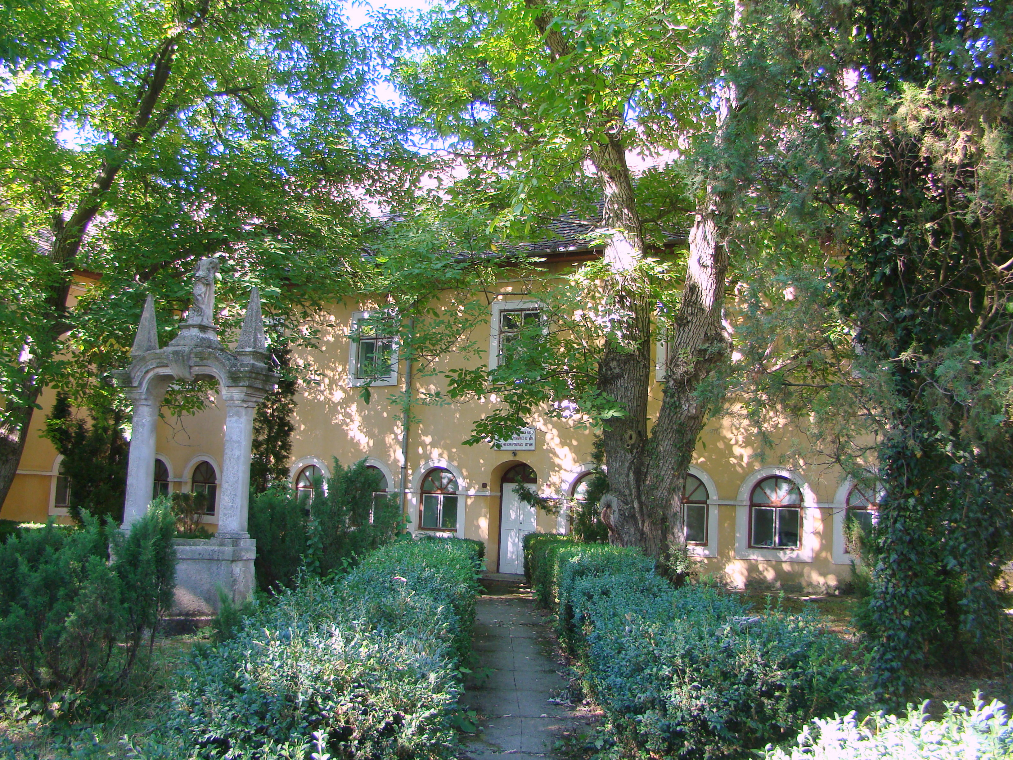 Franciscan monastery in Vințu de Jos, Alba county, Romania